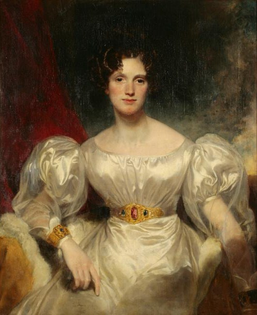 Portrait of women